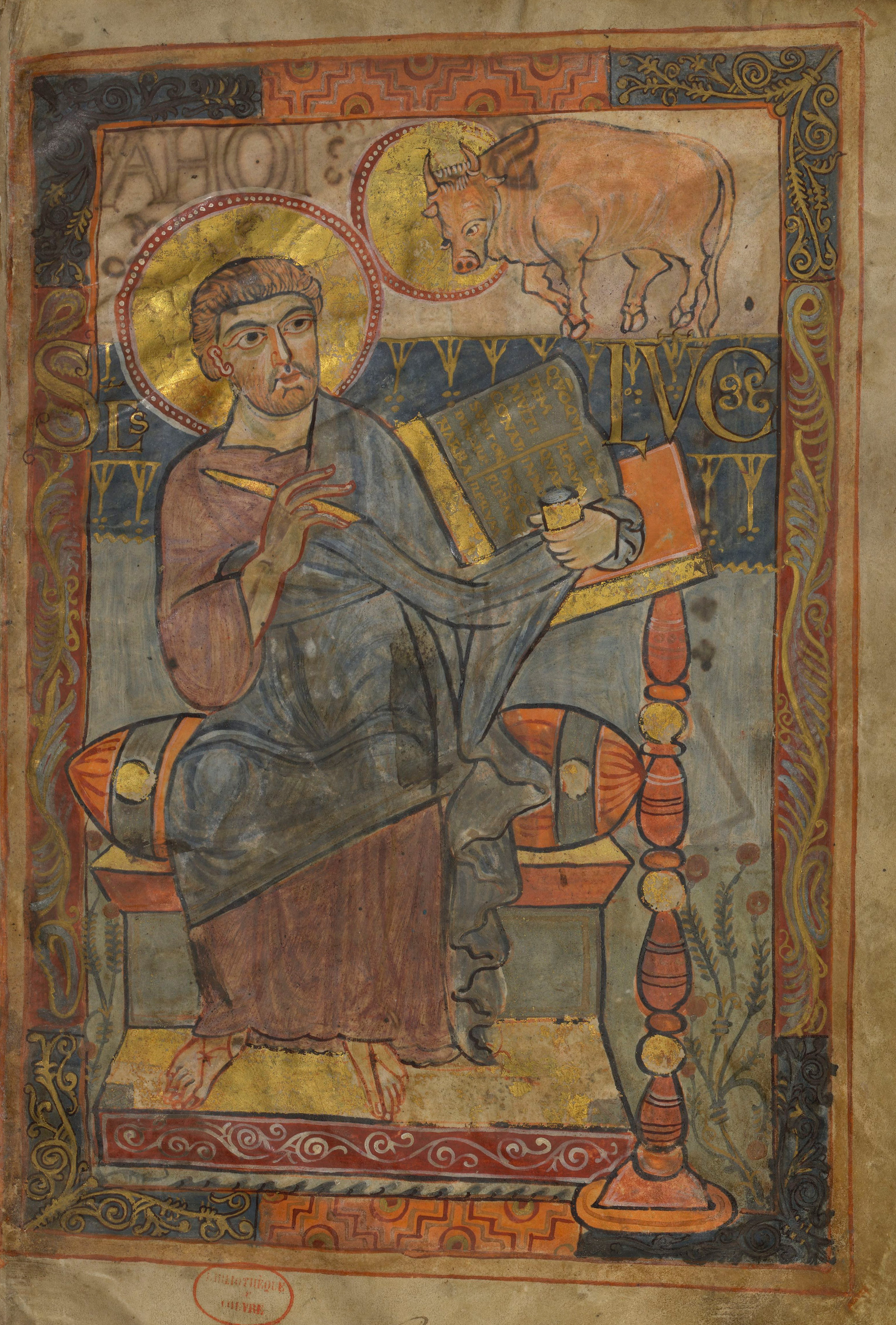 Luke the Evangelist, from the Evangéliaire dit de Charlemagne.